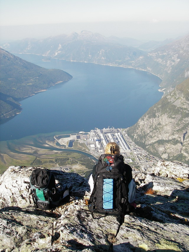 Sunndalsøra viewed from the mountain Litlkalkinn (1,389 m asl). The estuary of the river Driva is clearly visible, as is the aluminium plant. The Sunndalsfjord stretches out to north-west towards Kristiansund. The inner part of Sunndalsfjord. Sunndalsøra and the estuary of the river Driva. View from the mountain Litjkalkinn (1,389 m).